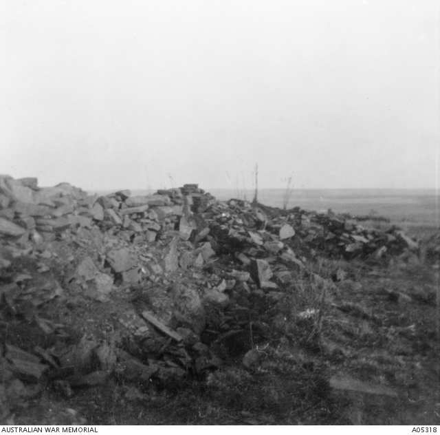 A year after the siege of Elands River Post, a rough wall or parapet stands at the site of the battle. The wall is made of blocks and slabs of slate which the besieged soldiers had hastily thrown up as defences. In 1900, a small force composed mainly of Australians and Rhodesians had held out for thirteen days against far stronger Boer forces until a British relief column arrived.